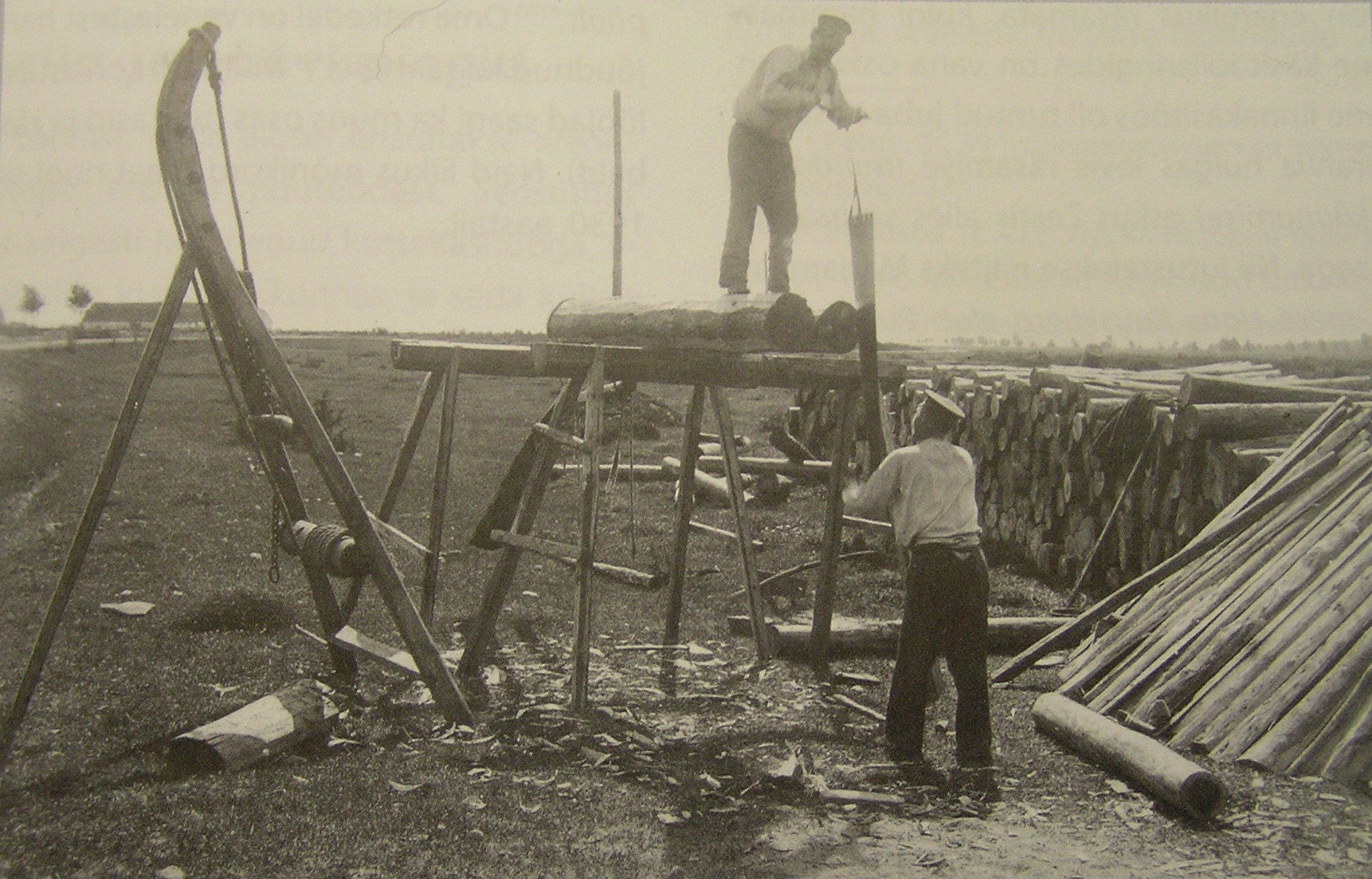 Sawing in Estonia 1913.